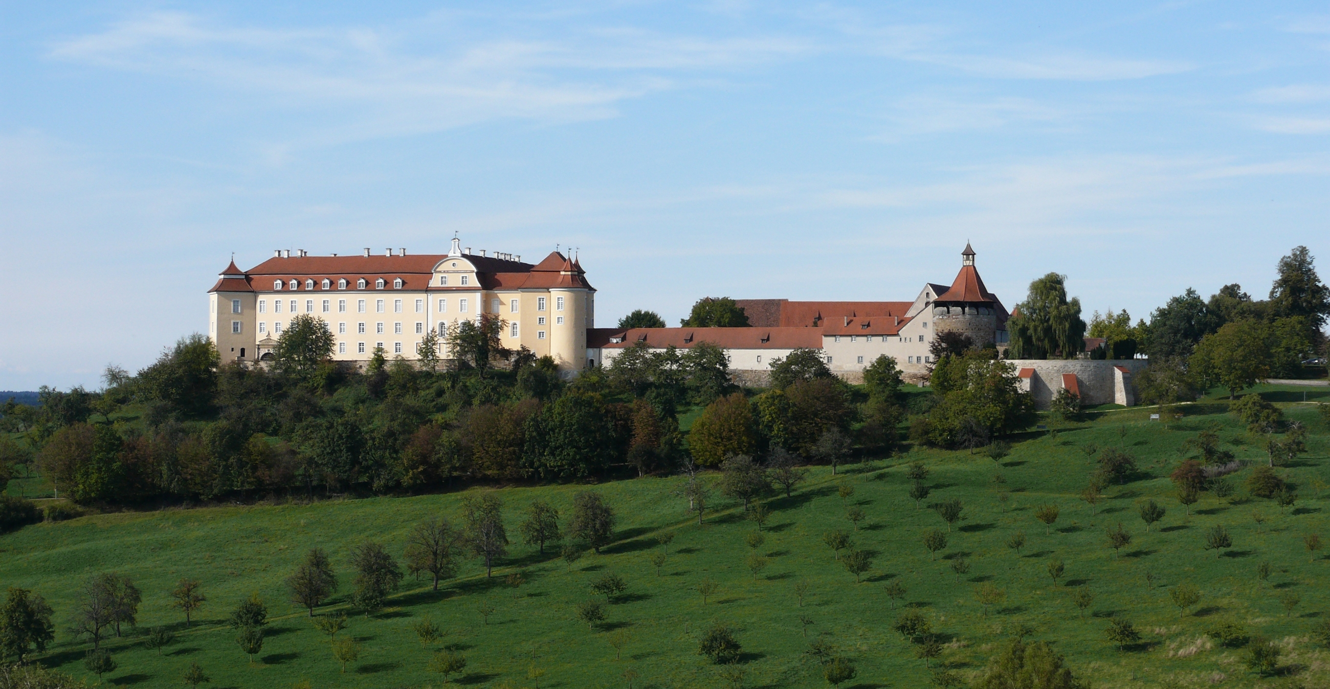 Schloß ob Ellwangen as seen from the south